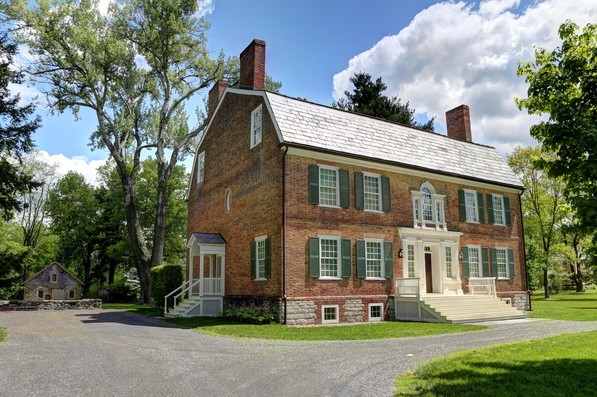 The historic William Henry Ludlow house, built in 1786 in Claverack, NY in Columbia County, is listed on the National Register of Historic Places.